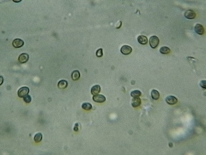 Spores of Phaeomarasmius erinaceus (Fr.) Scherff. ex Romagn. Image location: Braga, Portugal BL Spores ± 9.6 X 7.2 Recognized by sight For more information about this, see the observation page at Mushroom Observer.